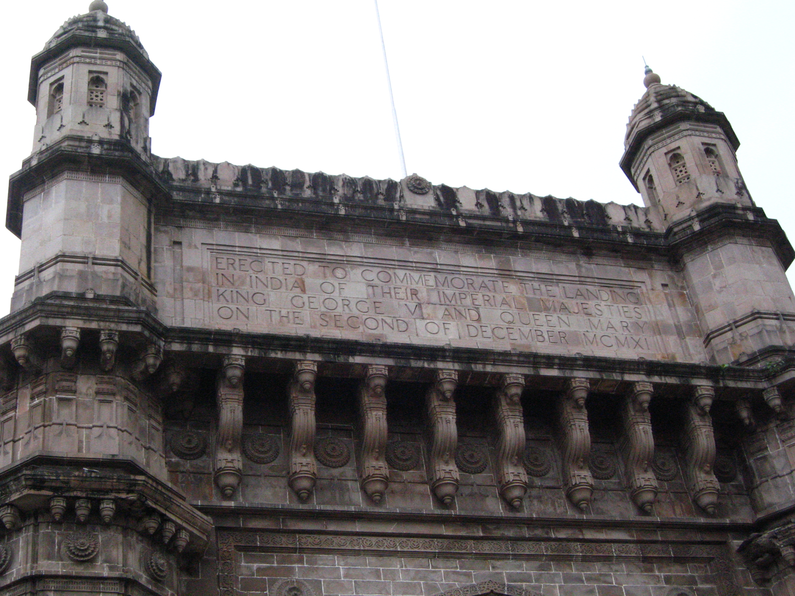 Inscription on Gateway of India, Mumbai, India.